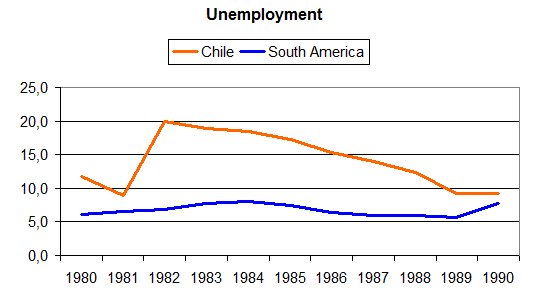 Unemployment in Chile (1980 - 1990). Source [1]